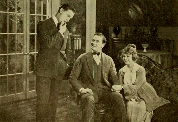 Still from the American film serial The Carter Case (1919) with William Pike, Herbert Rawlinson, and Marguerite Marsh, from an ad on page 1068 of the May 17, 1919 Moving Picture World.